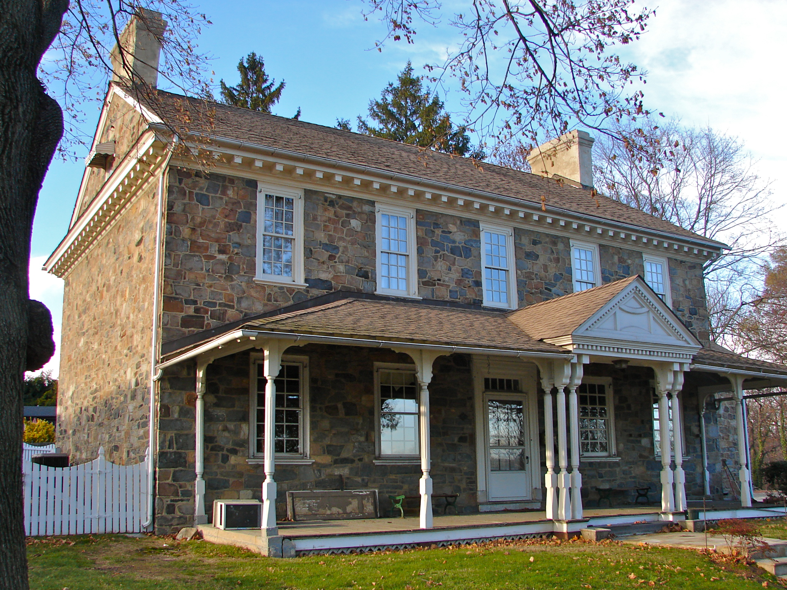 Glynrich on the NRHP since November 1, 1979. At Mill Rd. and Race St., Wilmington, Delaware. House right next to the park is part of the site, but the main site is on the hill above, about 50 yards away.